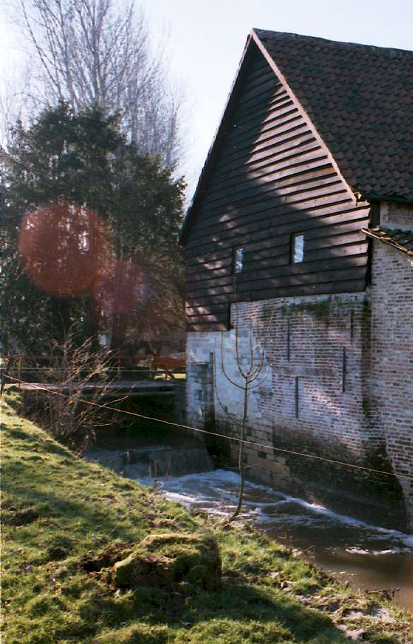 Watermill Marselaermolen, Londerzeel, Belgium